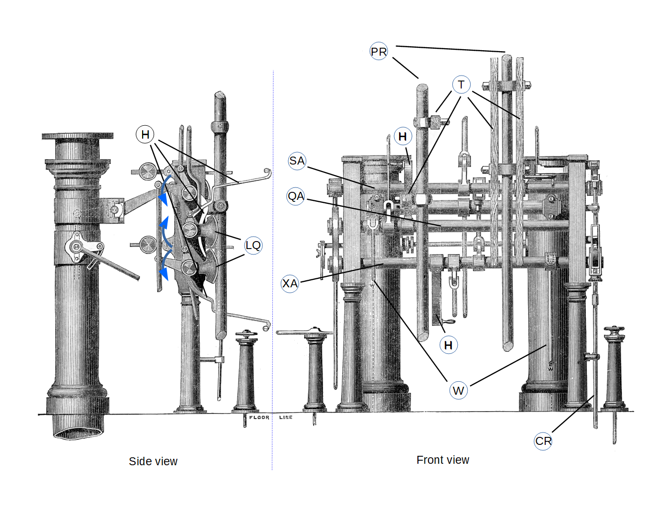 Valve gear for the 55 inch Cornish Engine at Battersea waterworks made by Harvey and CO. of Hayle. Some parts are labelled, but for clarity not all versions of all parts have been indicated. The assembly is shown with all the valves set in their closed position. The blue arrows show the direction they would turn to open. SA: Steam Arbor, QA: Equilibrium Arbor, XA: Exhaust Arbor, H: Handles, LQ: Locking Quadrants, PR: Plug Rod, T:Tappets, W: Attachment points for weights. Based upon “Valve gear, 55-inch Cornish engine, Battersea Waterworks”, The Engineer, Feb 22 1867, page 154.